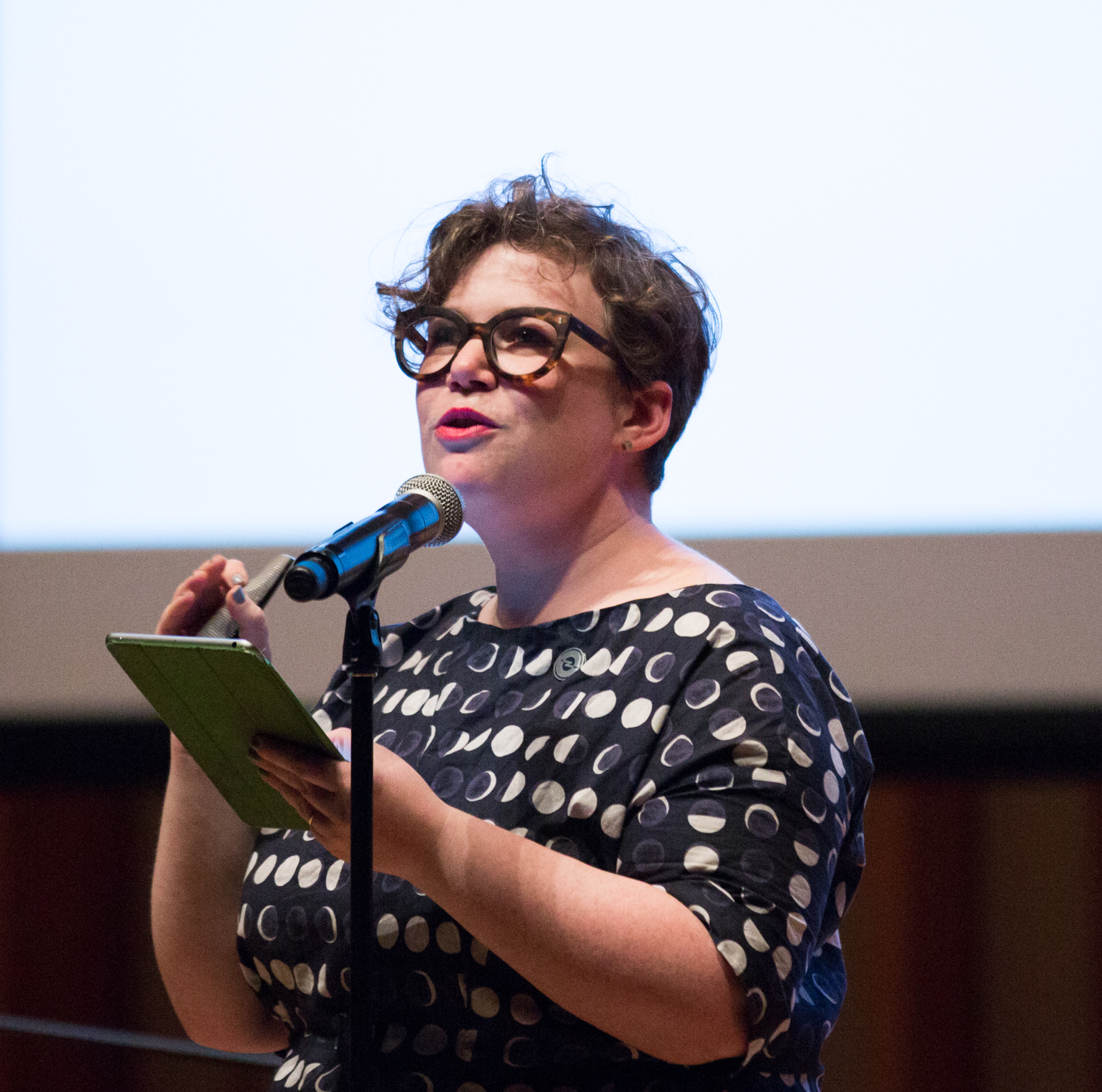 Helen Zaltzman on stage in Los Angeles, performing 99% Allusional with Roman Mars, 14 April 2017